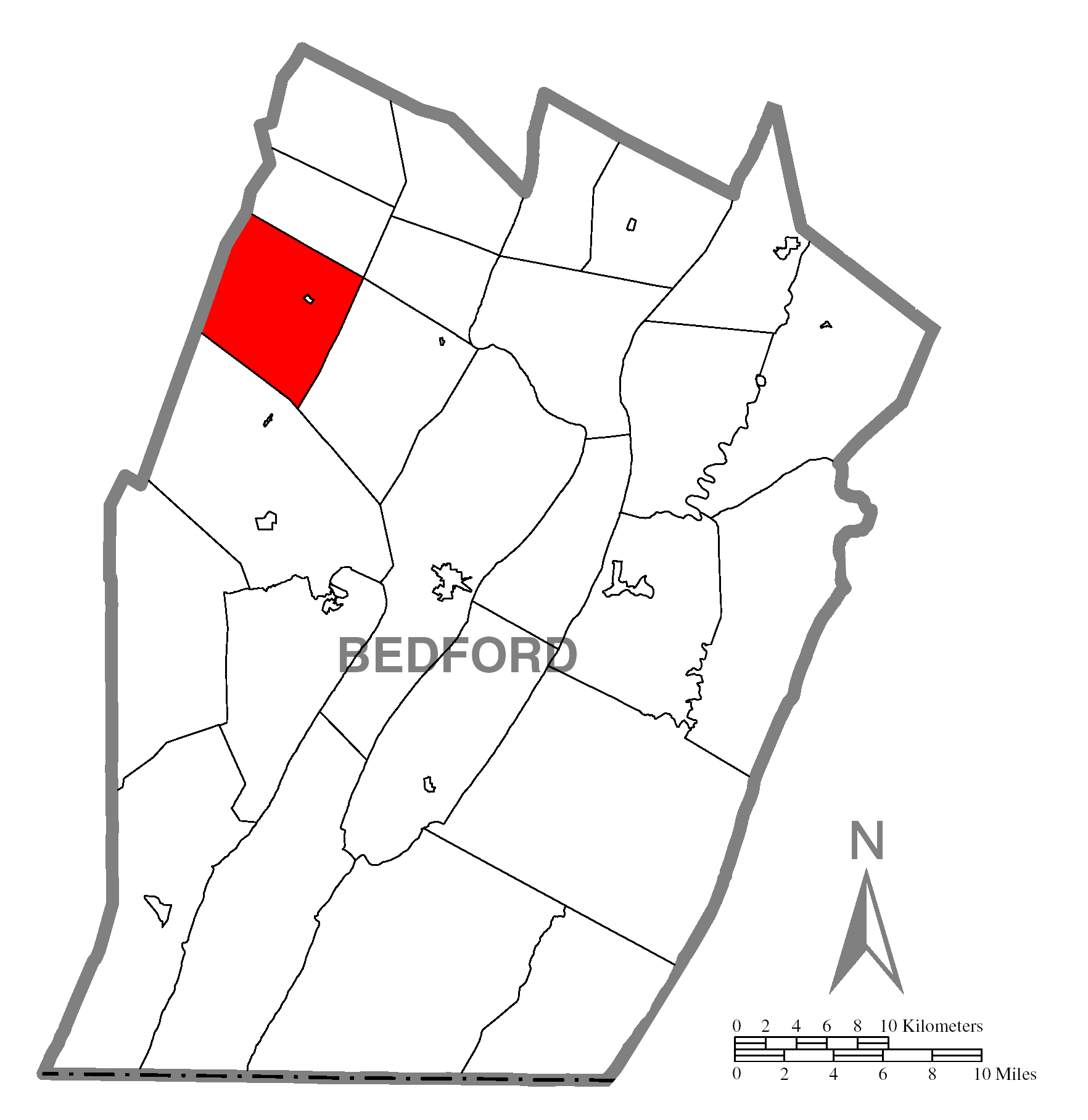 A map of Bedford County showing West St. Clair Township, Pennsylvania (alternate) highlighted on the map.